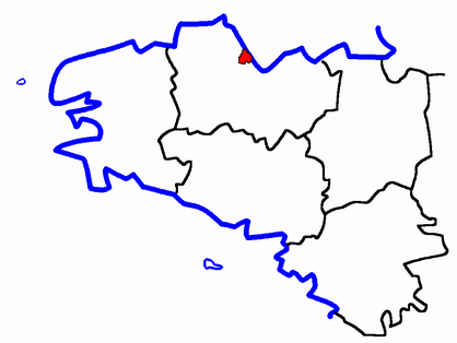 Description: Map for localisazion of cantons of Bretagne region in France Source: made by Hervé Tigier in april 2005 from another large map (published in 1990)